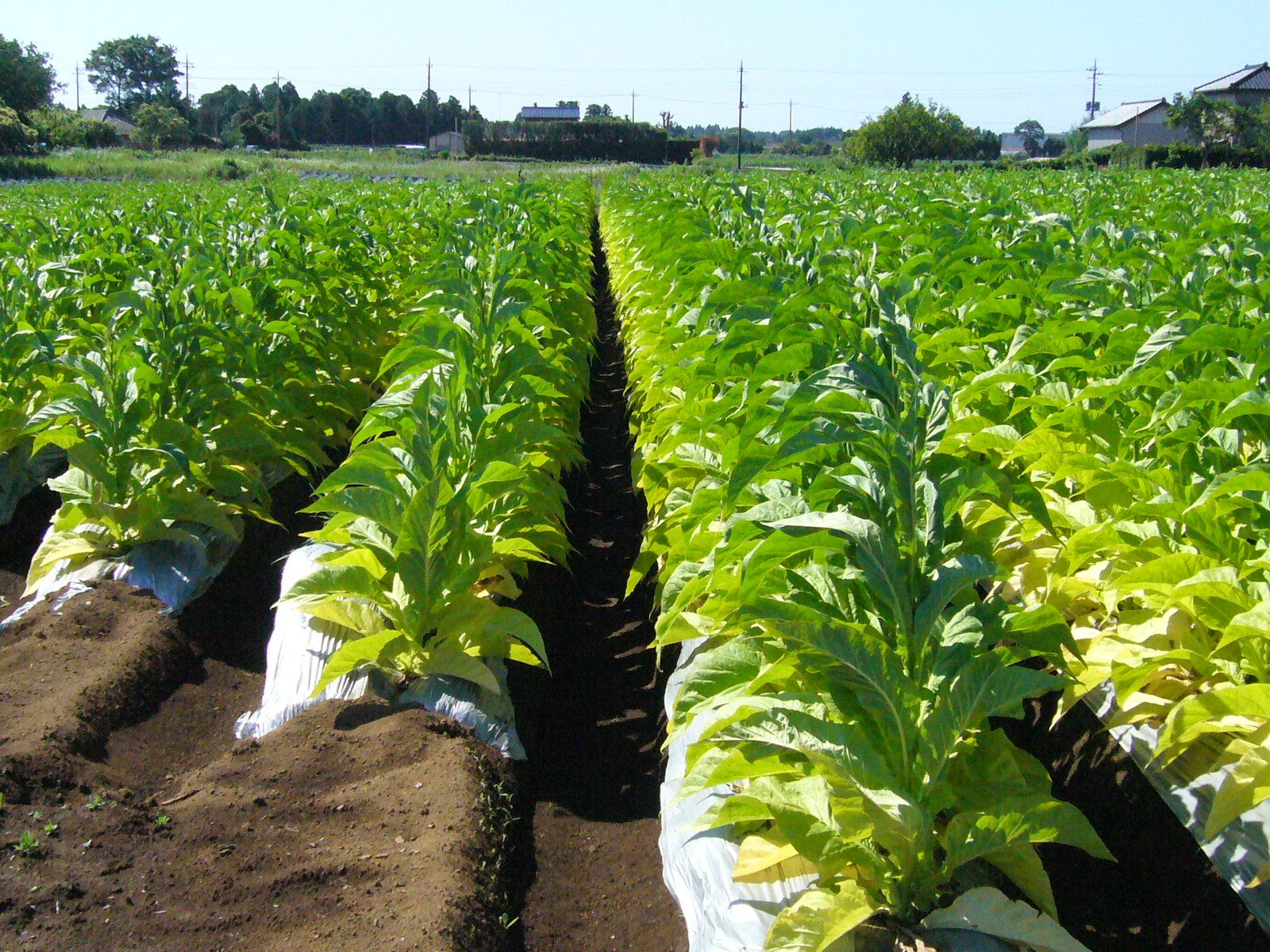 tabaco-field,katori-city,japan